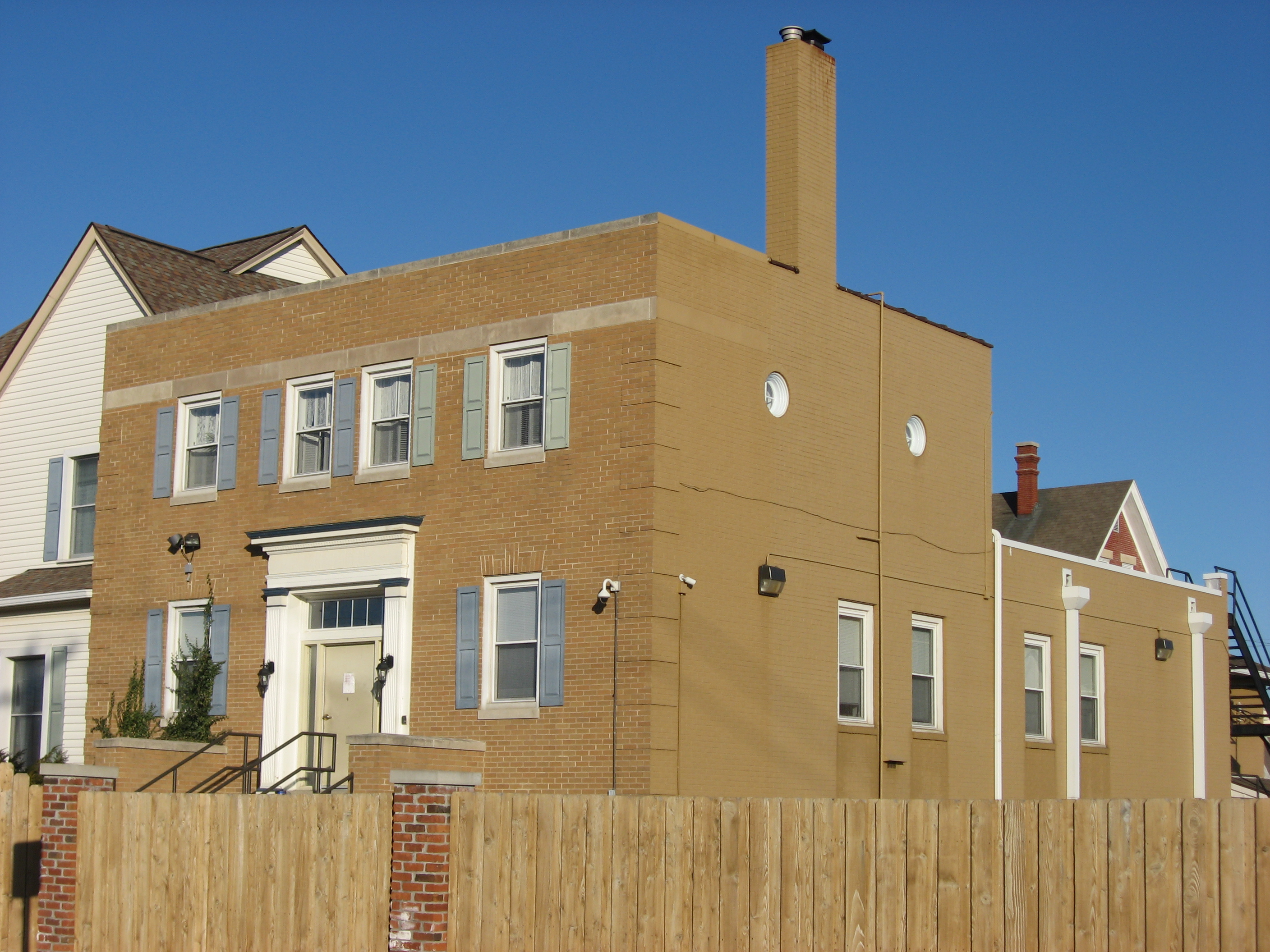 Front and southern side of the Peacock Apartments, located at 414 S. Jefferson Street in Muncie, Indiana, United States. Built in 1907, it is listed on the National Register of Historic Places.